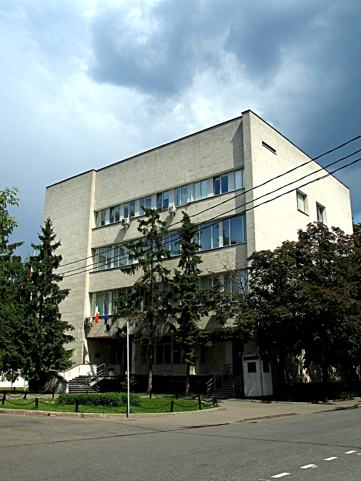 Embassy of Ireland in Moscow (Grokholsky Lane, 5)